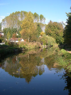 Shropshire Union Canal